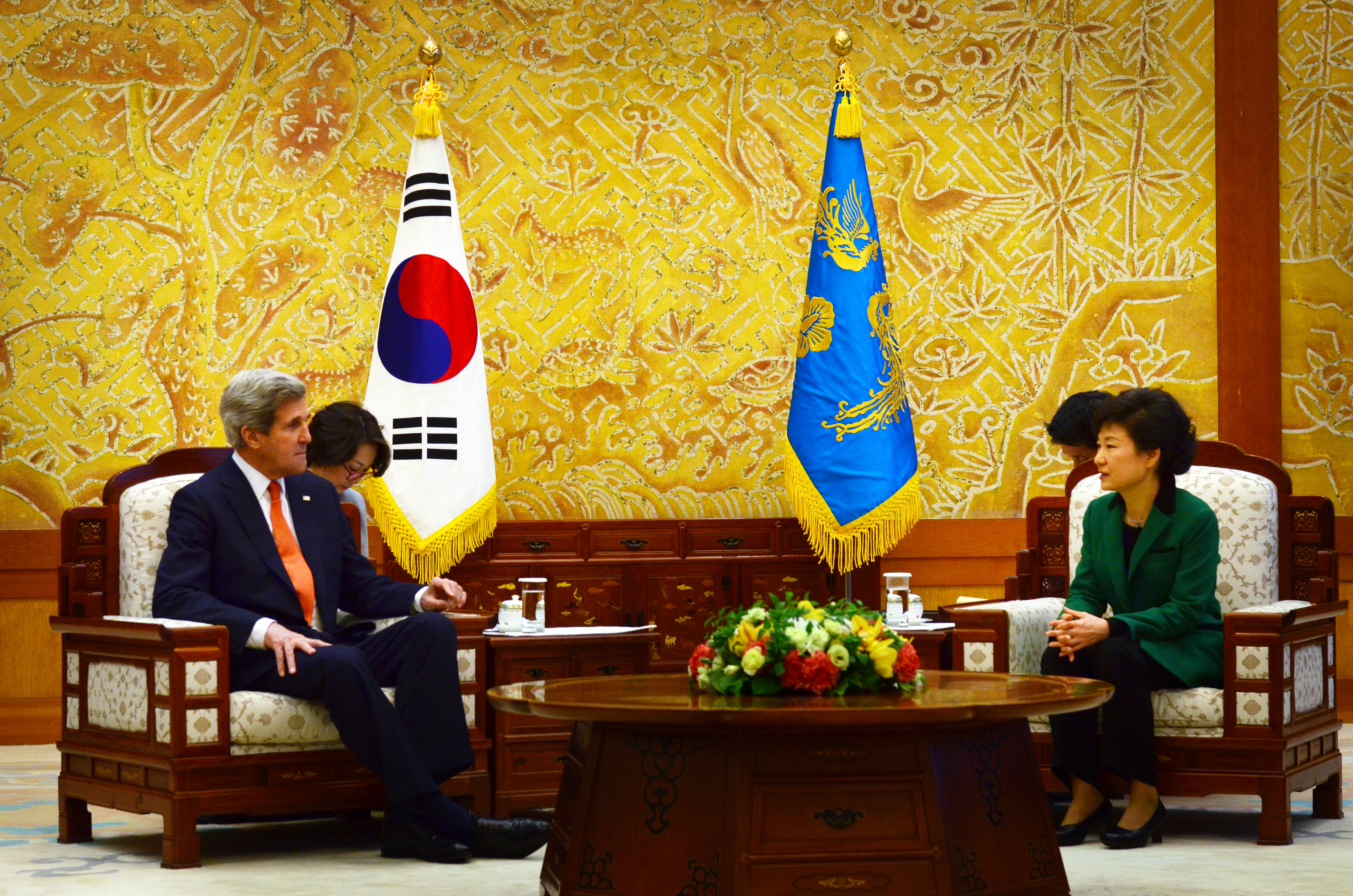 U.S. Secretary of State John Kerry meets with South Korean President Park Geun-hye at the Blue House in Seoul, South Korea, on April 12, 2013. [State Department photo/ Public Domain]